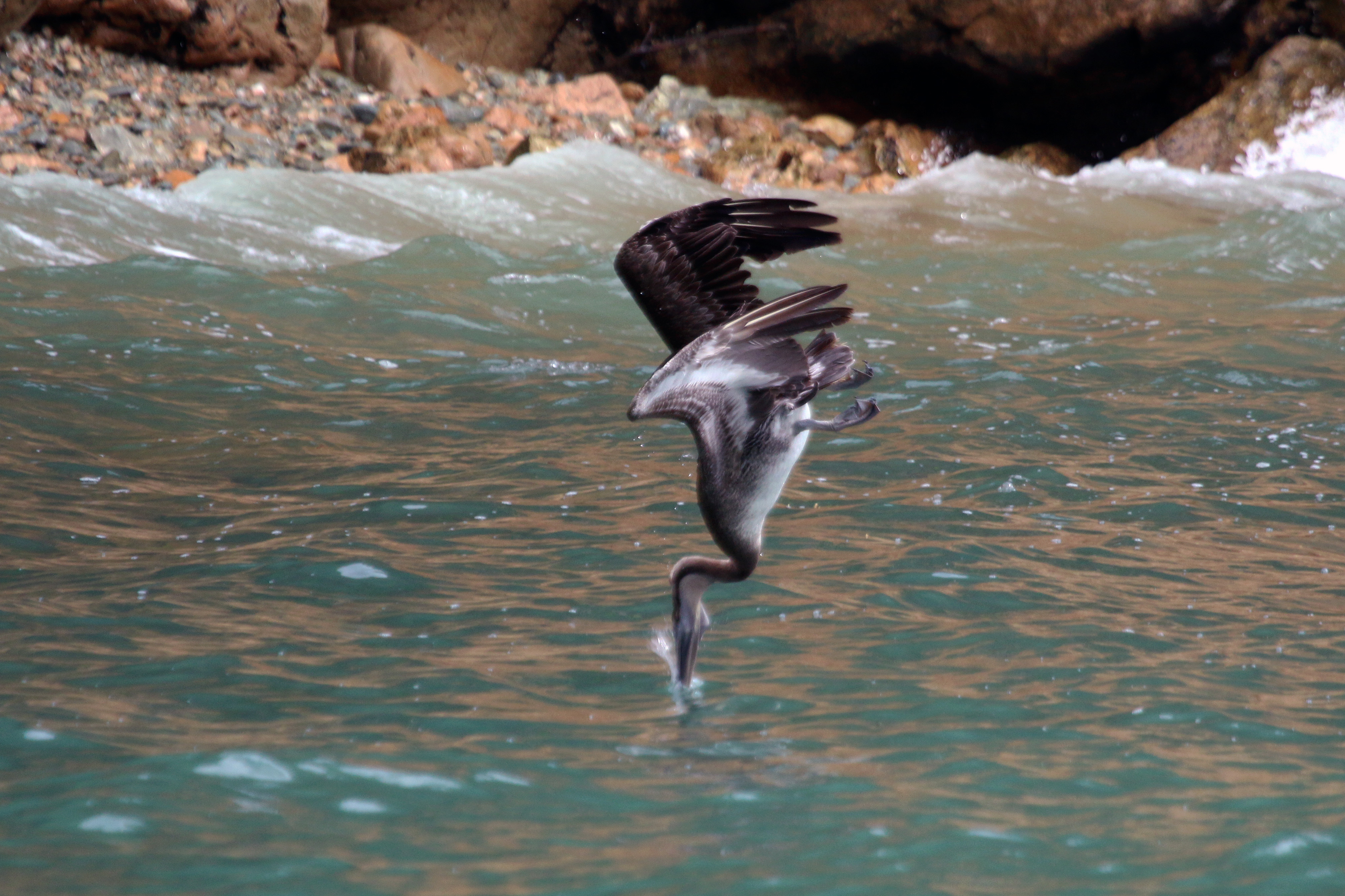 Brown pelican (Pelecanus occidentalis occidentalis) diving, Tobago